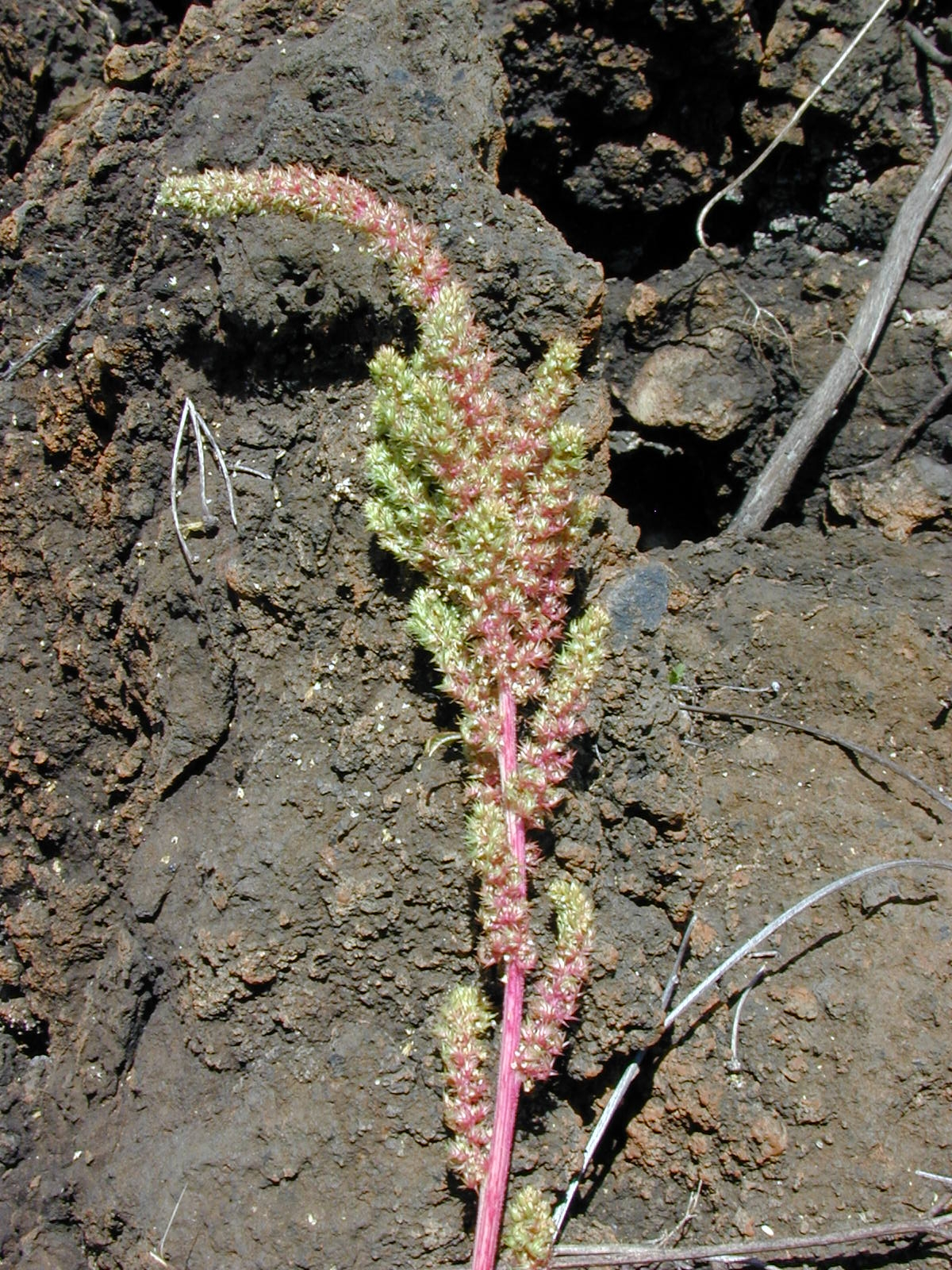 Amaranthus hybridus (fruits). Location: Maui, Puu o Kali